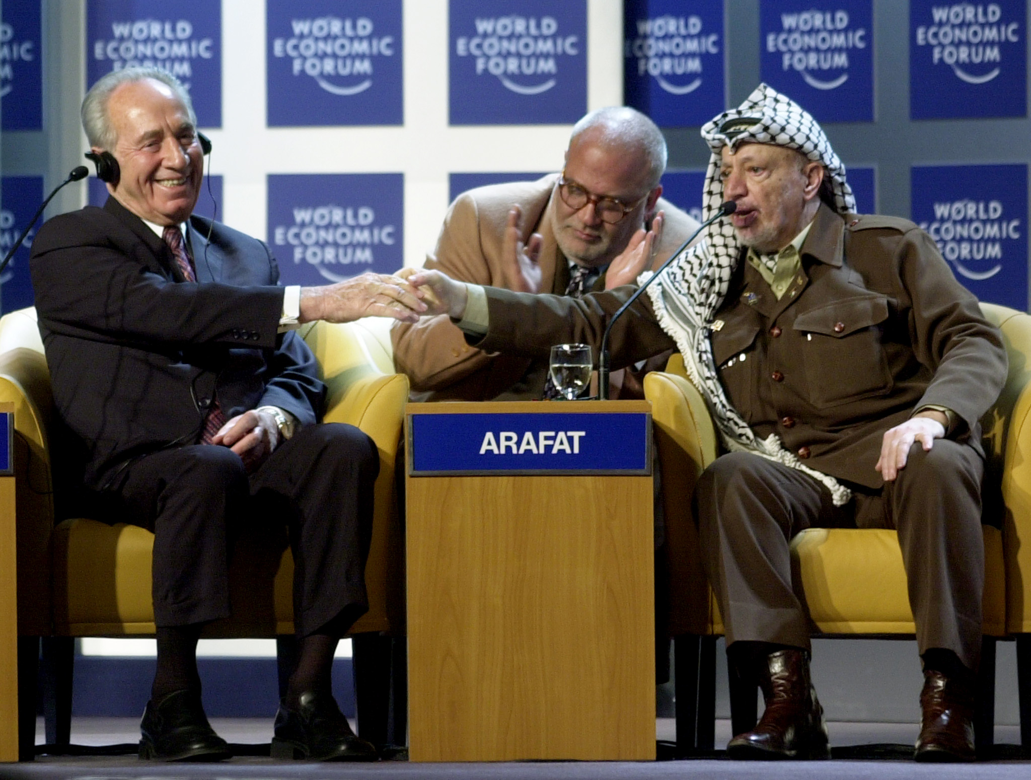 DAVOS/SWITZERLAND,28JAN01 - President of the Palestinian Authority Yasser Arafat (R) shakes hands with Minister of Regional Cooperation of Israel Shimon Peres (L) as an unidentified translator applauds at the beginning of a session entitled 'From Peacemaking to Peacebuilding' at the Annual Meeting 2001 of the World Economic Forum in Davos, January 28, 2001.